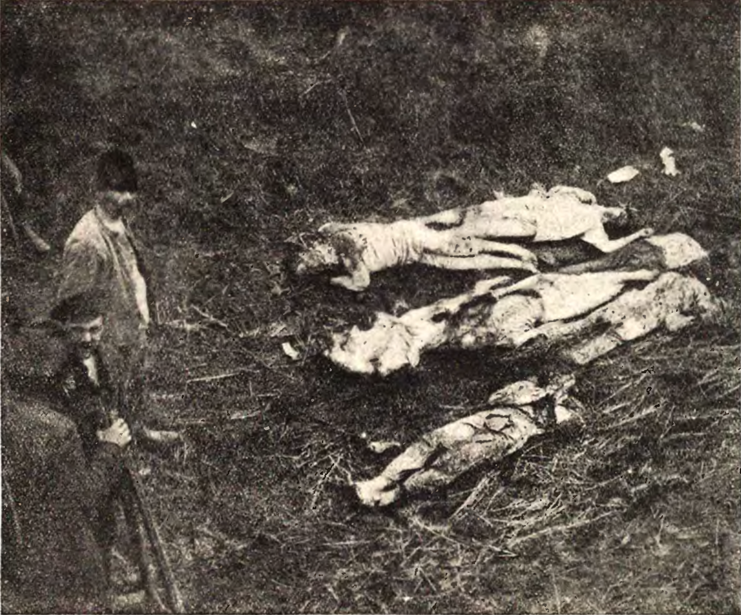 Corpses of the executed Russian Communards during the Jewish pogrom in Cherkassy.